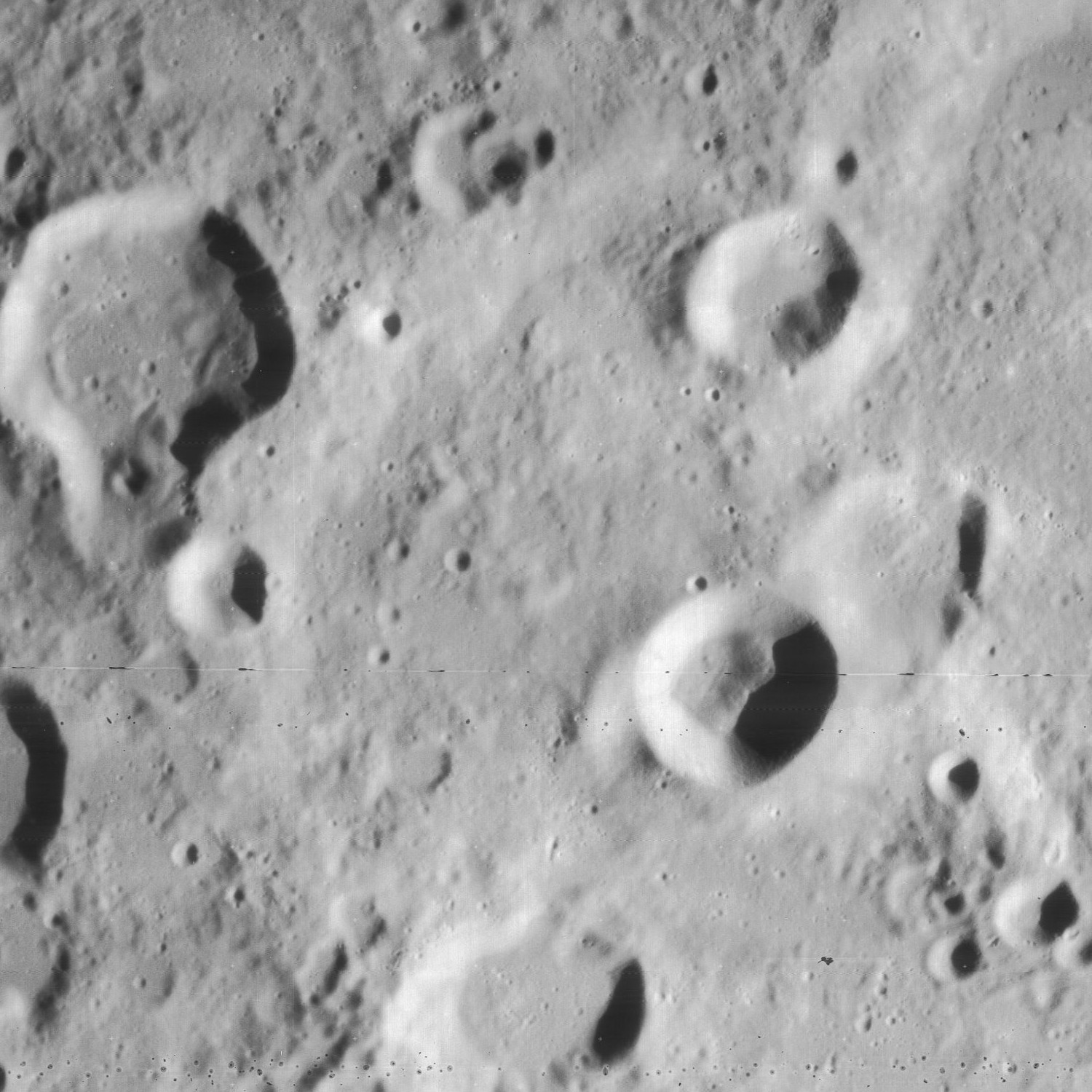 Lagalla, on the moon. North is to upper right.